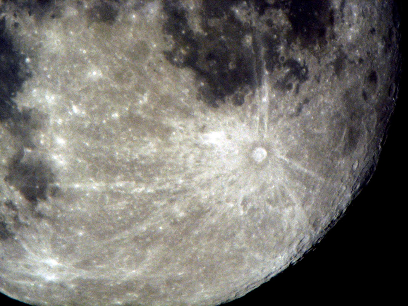 The meteor that made this crater hit with such force that it nearly ripped the moon apart. It's so massive that we can see it with the unaided eye from 239,000 miles away.